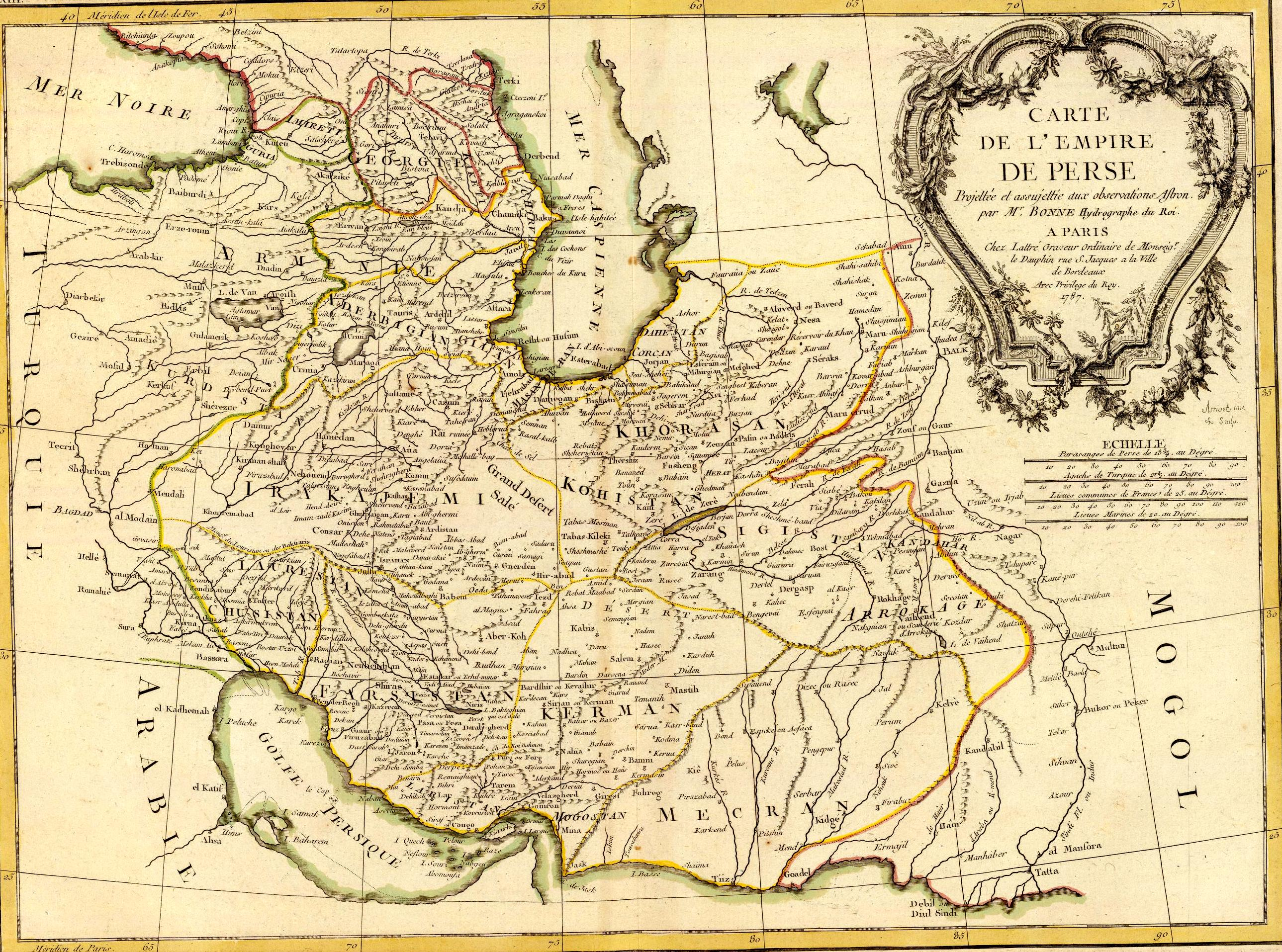 Carte de l'Empire de Perse. Projettee et assujettie aux observations astron. par Mr. Bonne, Hydrographe du Roi. A Paris, Chez Lattre Graveur, ordinaire de Monseigr. le Dauphin, rue S. Jacques a la Ville de Bordeaux. Avec privilege du Roy. 1787. Arrivet inv. & sculp.